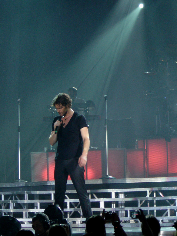 Take That member Howard Donald performing in Newcastle, England.